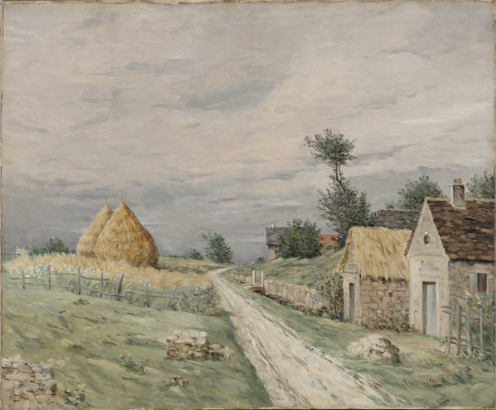 Painting: Landscape, by Jean-Charles Cazin. Current location: Dallas Museum of Art